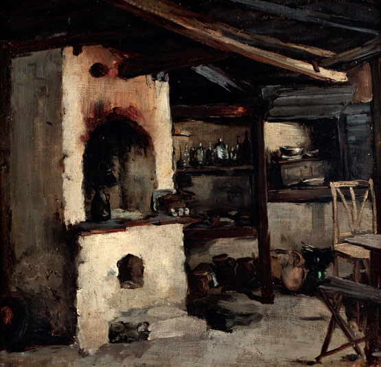 Odzaklia (Djordje Krstic, 1851 - 1907)